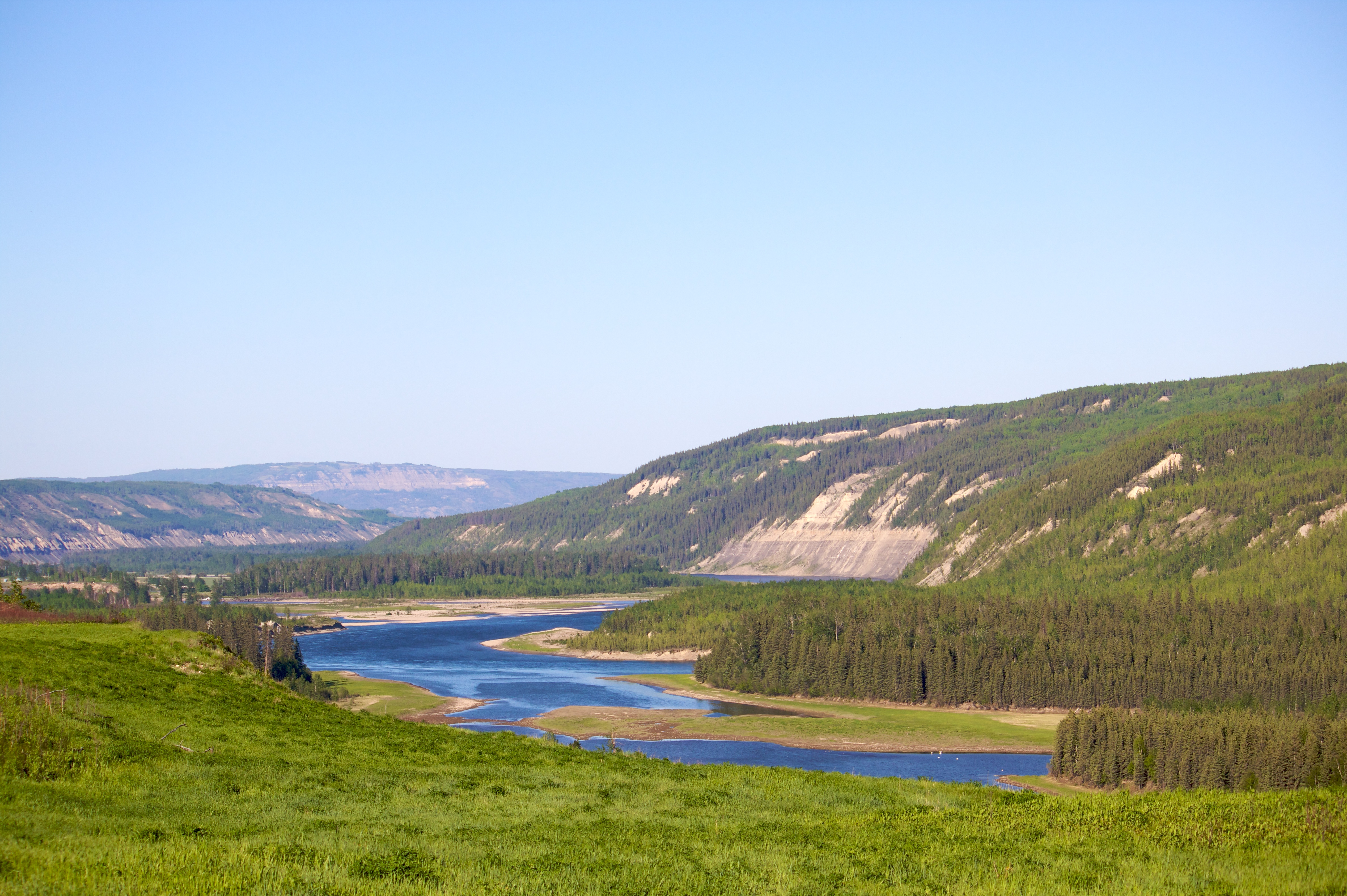 The Peace River Valley Near the Halfway River